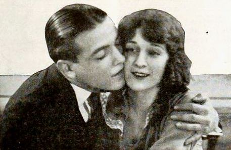 Still (cropped for publication) from the American film The Girl Who Stayed at Home (1919) with Richard Barthelmess and Carol Dempster, on page 7 of the June 1919 Film Fun.